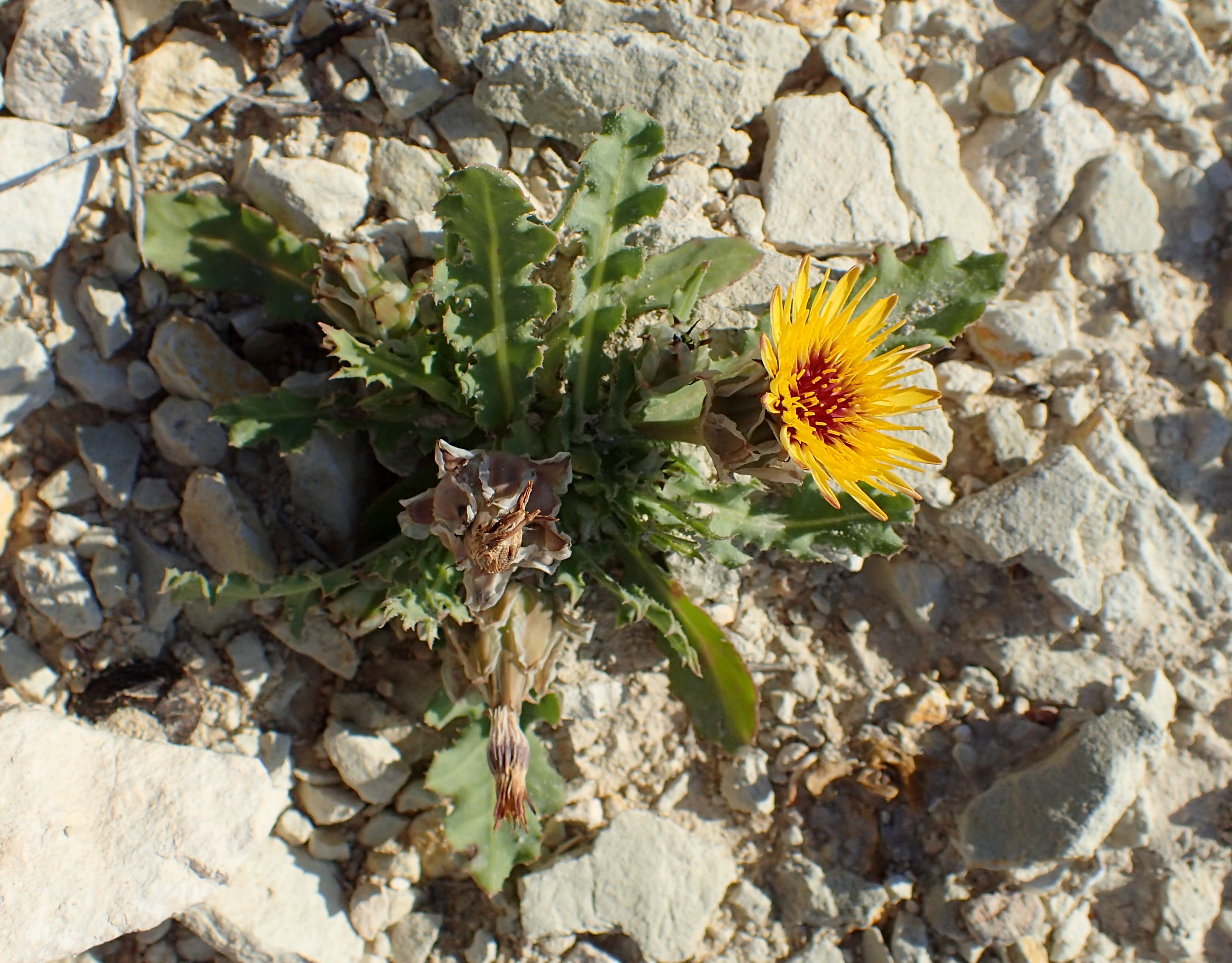 Reichardia tingitana in Petra tou Ramiou, Cyprus